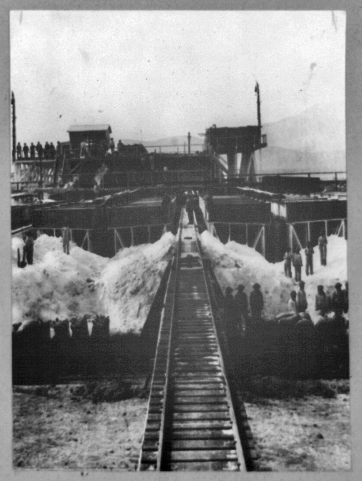 Nitrate plant, Chile